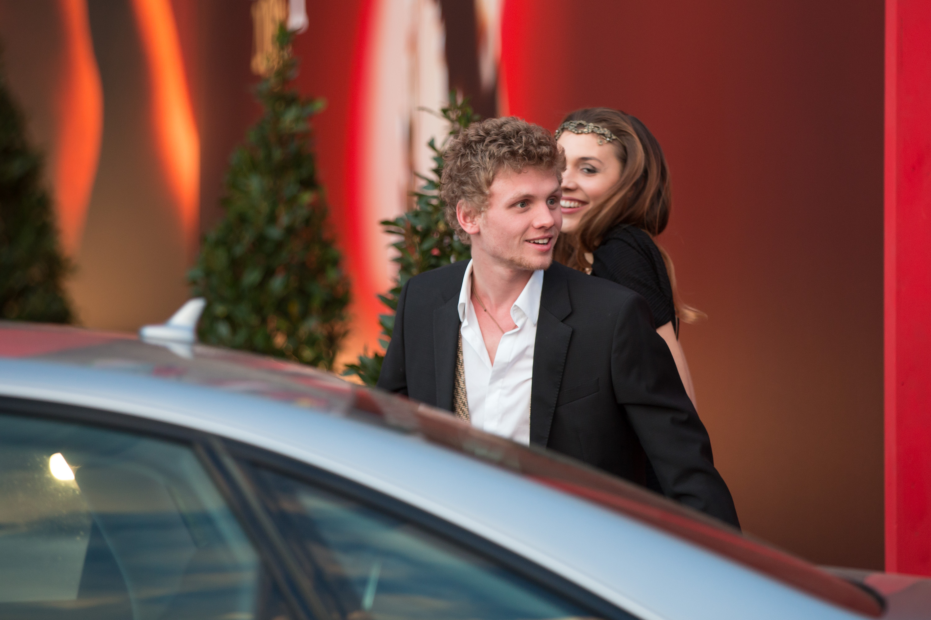 Johannes Nussbaum on the red carpet of the Romy TV awards 2016 at Hofburg Palace in Vienna, Austria.